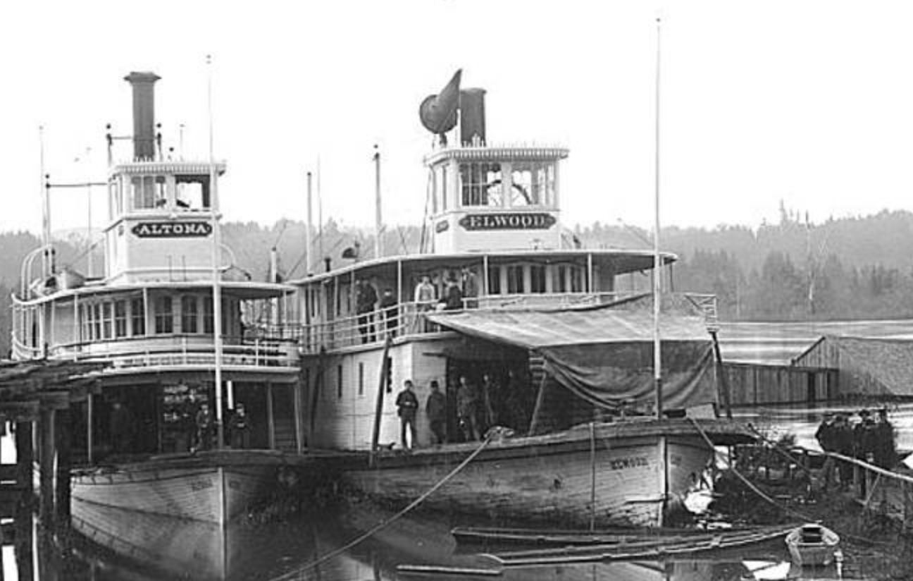 Sternwheelers Altona and Elwood at Salem, Oregon, 1893 (detail)